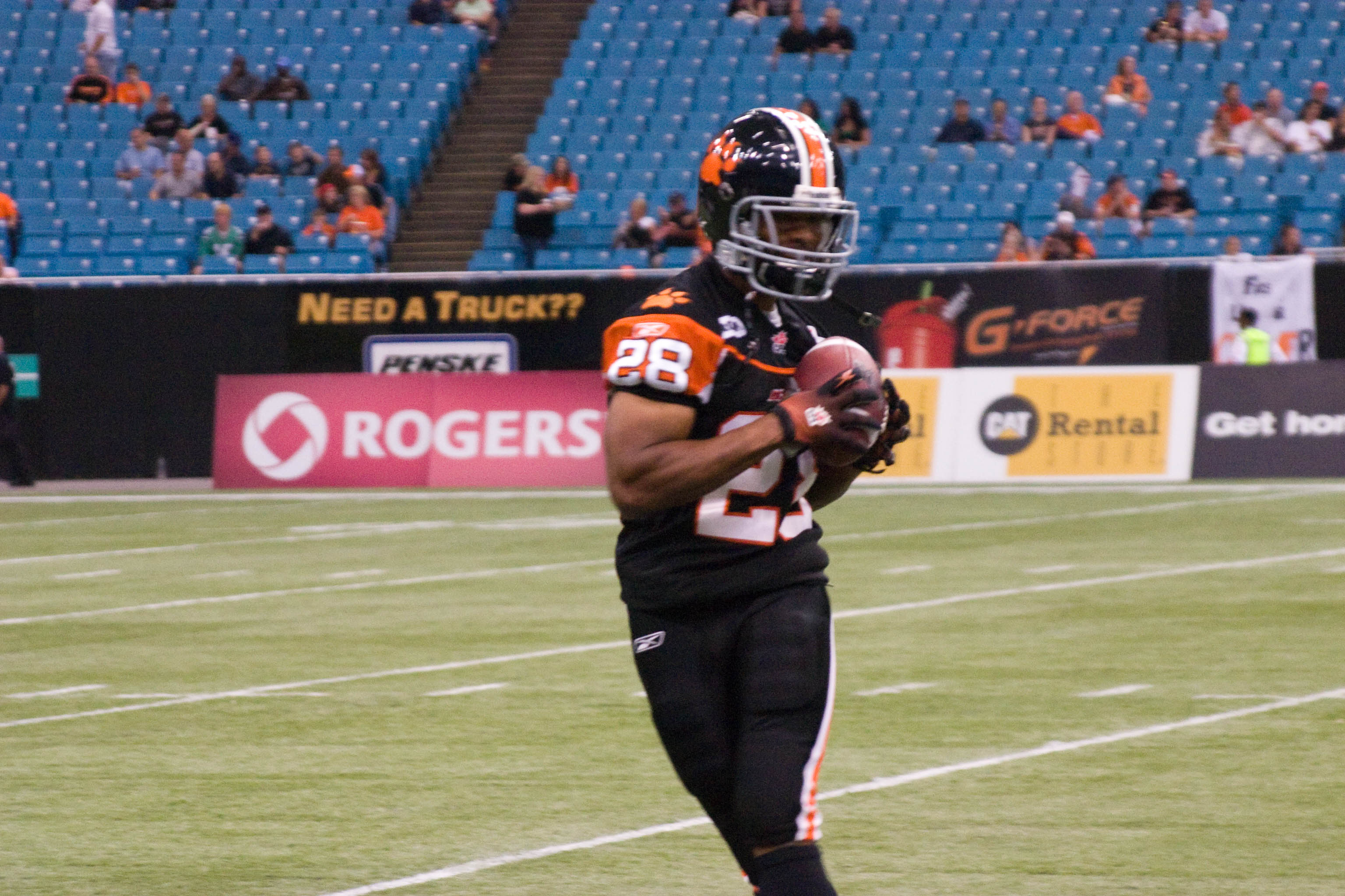 Lyle Green catching a pass on August 8, 2009.